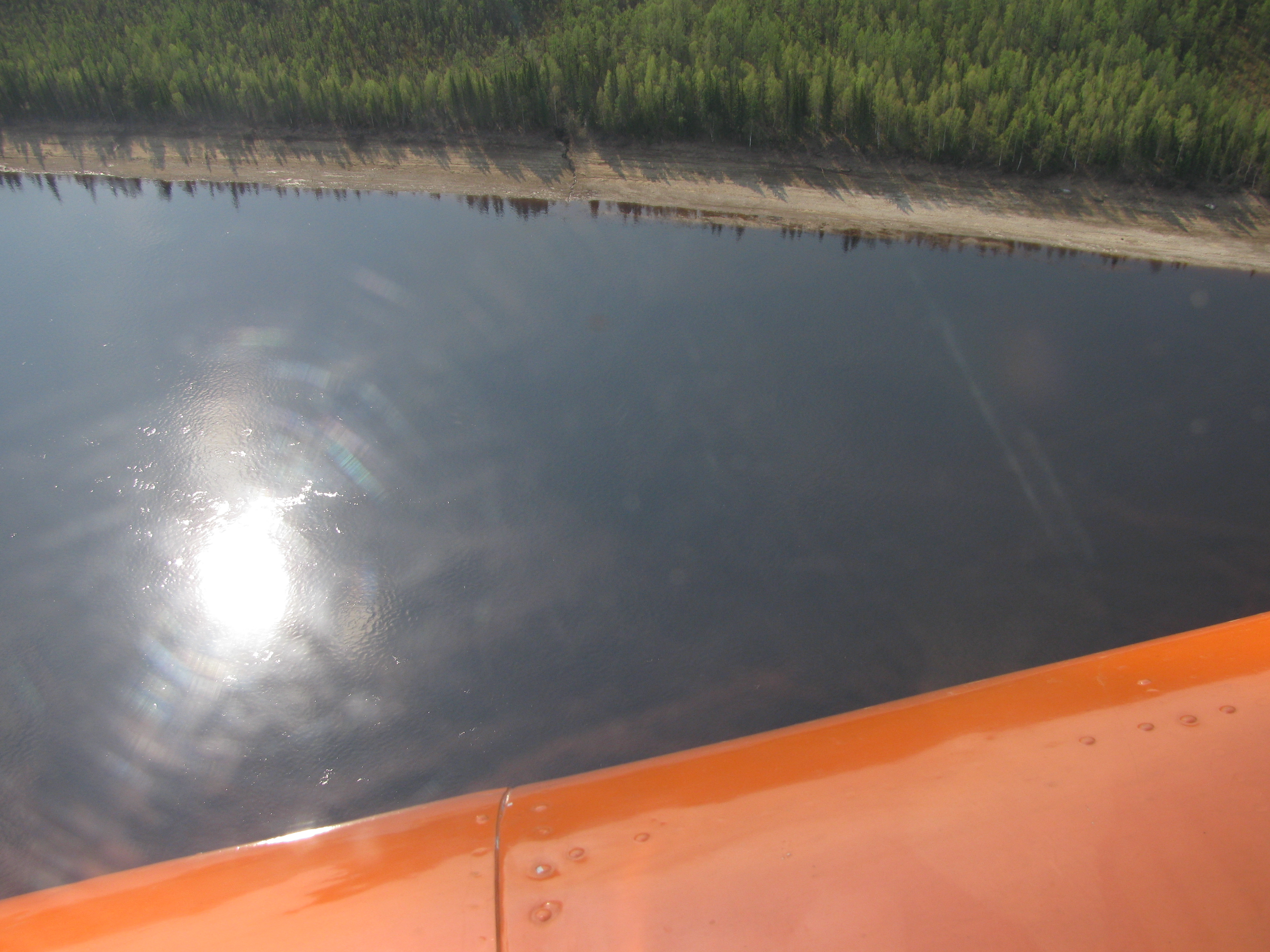 Podkamennaya Tunguska River, view from a helicopter